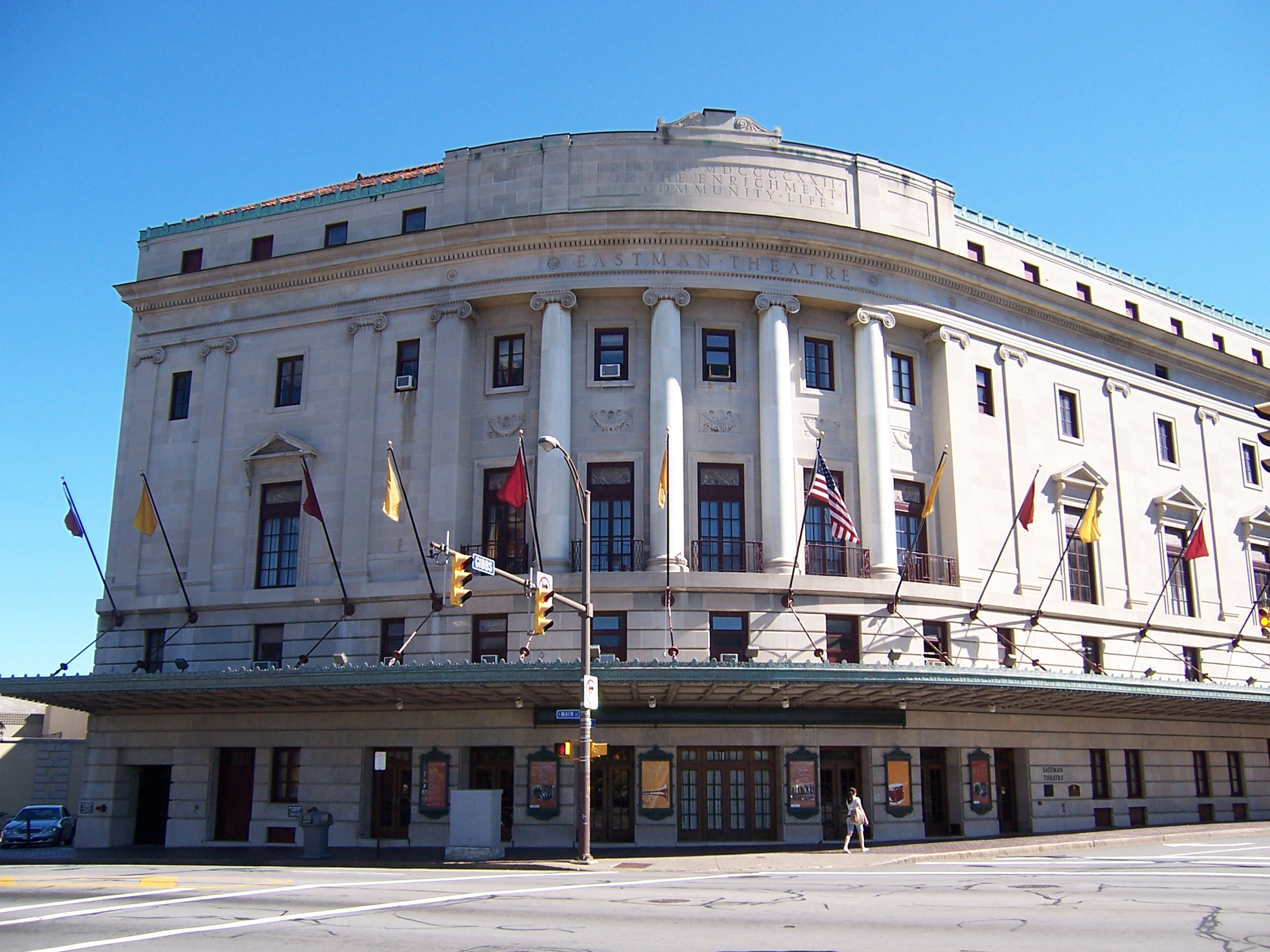 The facade of the Eastman Theatre, an historic auditorium in Rochester, New York. Conceived by, and named for, photography pioneer and philanthropist George Eastman, the Theatre opened in 1922. This is the primary performance space for the large ensembles at the Eastman School of Music and for the Rochester Philharmonic Orchestra. The streets in the foreground are East Main Street (left) and Gibbs Street (right).